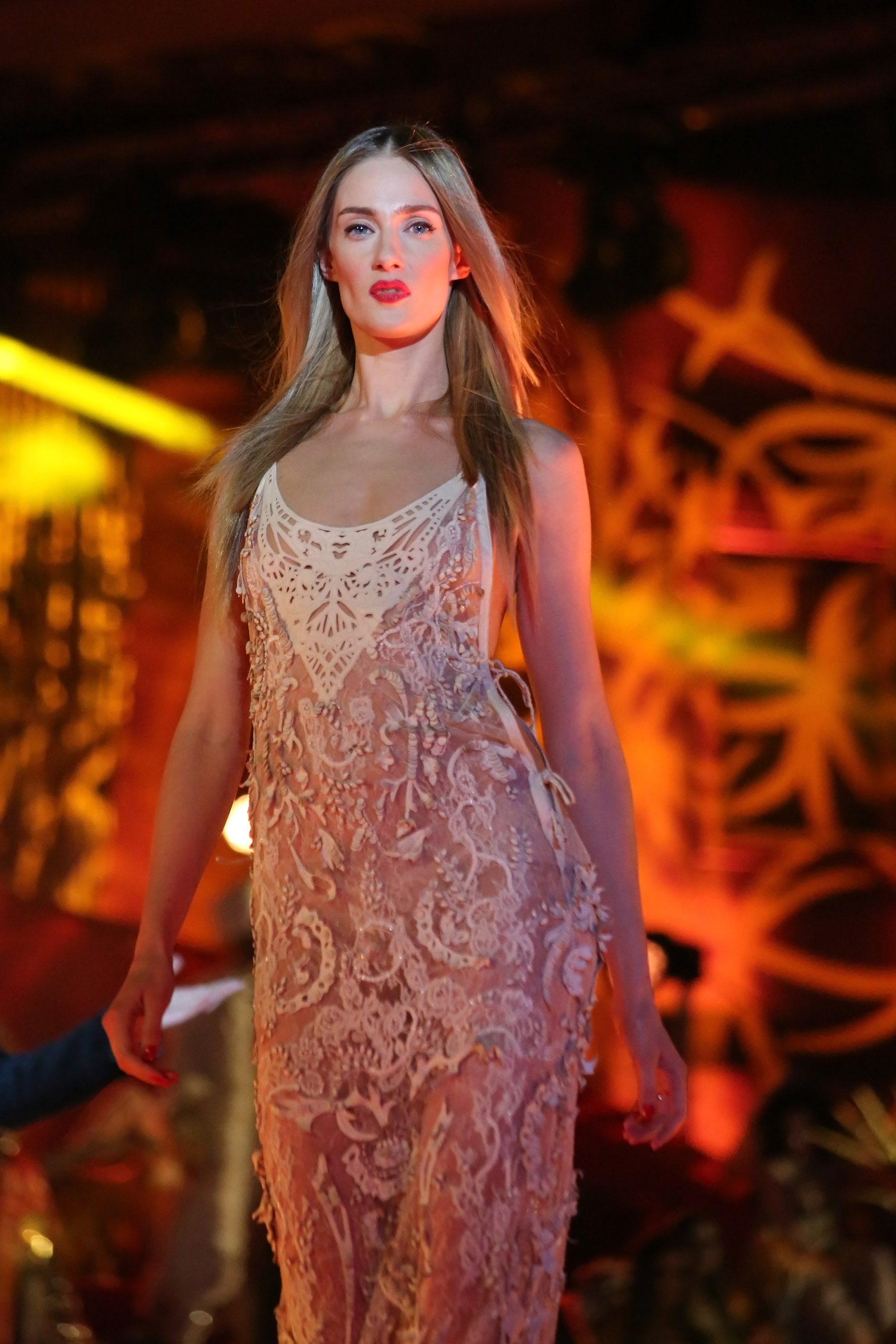 Eva Riccobono, fashion show by Roberto Cavalli, opening of Life Ball 2013 at the city hall of Vienna, Vienna, Austria.